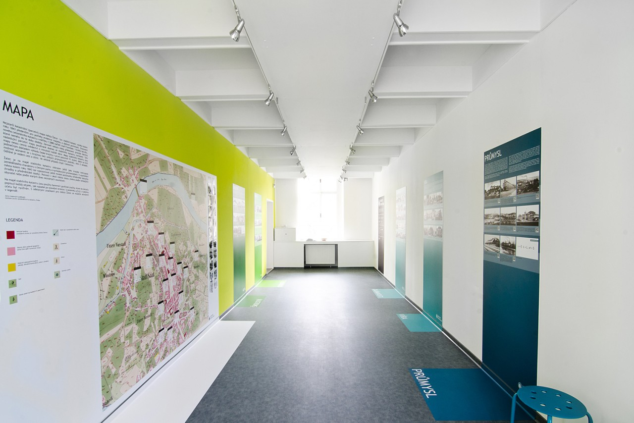 Exhibition called Time Machine in the Regional Museum in Žatec